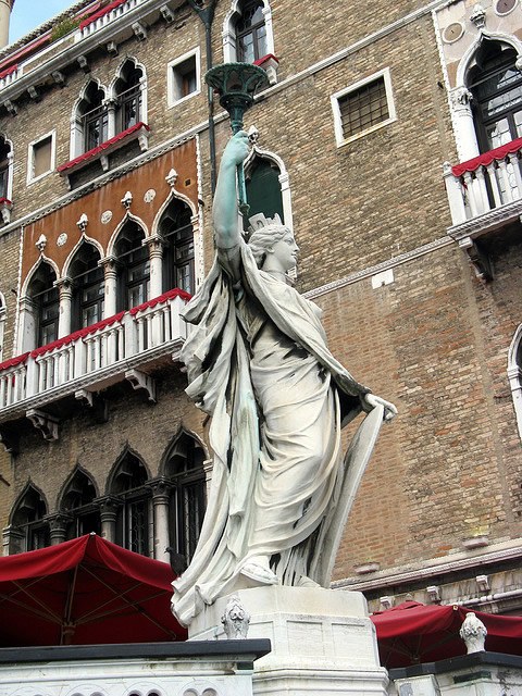 Carlo Lorenzetti, L’Italia turrita, 1898 ca., Hotel Bauer-Grunwald terrace, Venice.